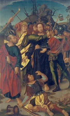 A Prisão de Cristo é um painel do Políptico da Capela-mor da Sé de Viseu, tendo sido criado, como os outros no período entre 1501 e 1506. Tendo de altura 132 cm e de largura 79 cm, a obra representa o episódio bíblico da Prisão de Cristo.